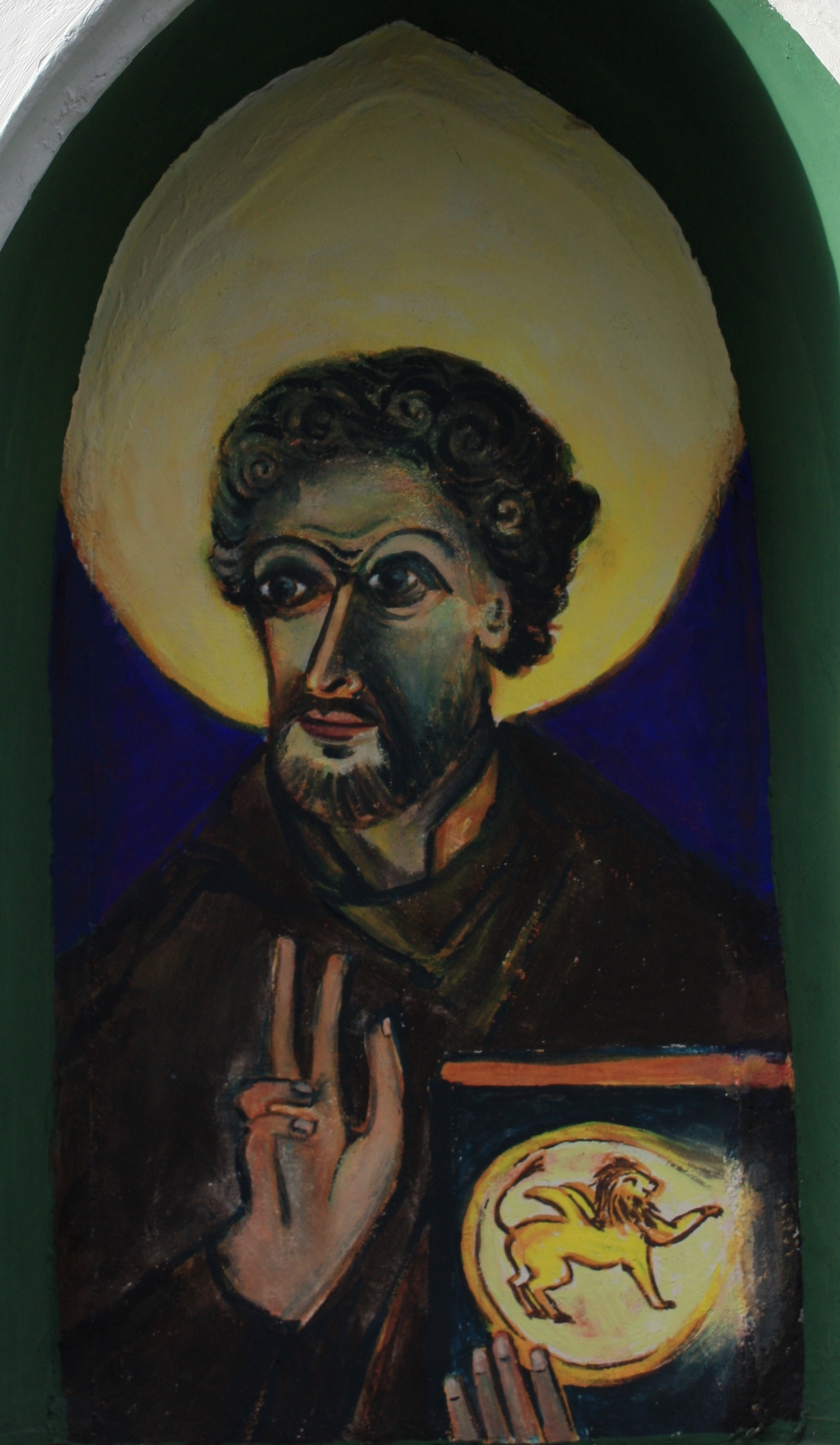 Wayside shrine - Saint Mark Locality: Völkendorfer Straße Community:Villach